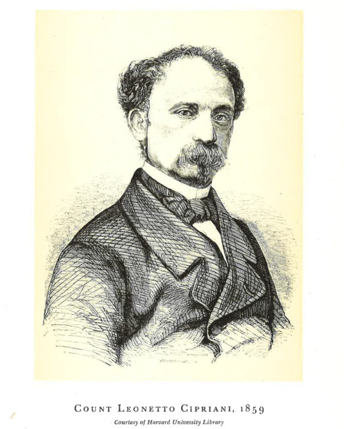 Corsican Italian Count Leonetto Cipriani